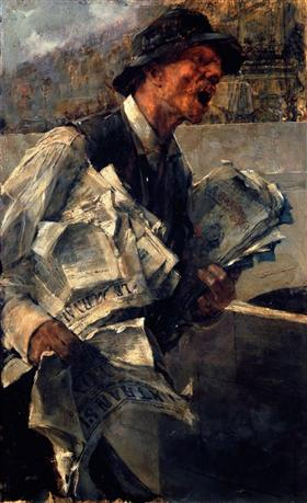 Work by Giovanni Boldini